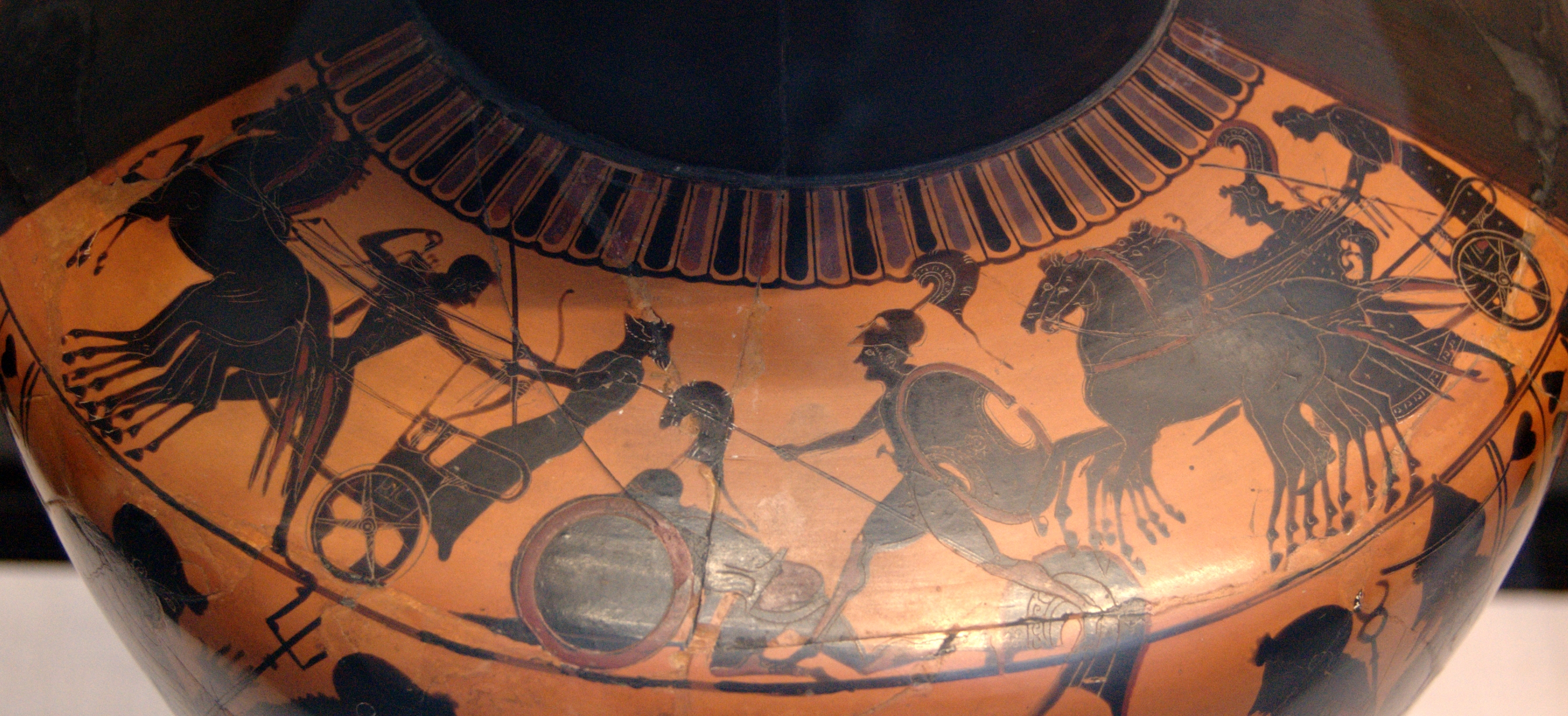 Neoptolemus killed Eurypylus and pursuits his charioteer, prevented by Apollo which engaged his bow to protect Troy. Shoulder of an Attic black-figure amphora by the Antimenes Painter, ca. 510 BC. From Vulci. Martin-von-Wagner-Museum, L 309 (work on display in the Staatliche Antikensammlungen, room 4, as of February 2007). Beazley, ABV, 268, 28.